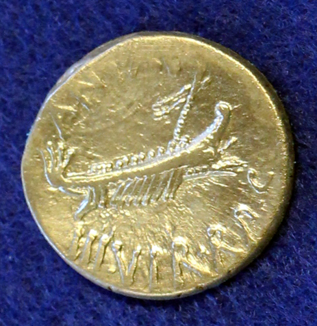 Centro di Documentazione Archeologica (Capannoli)